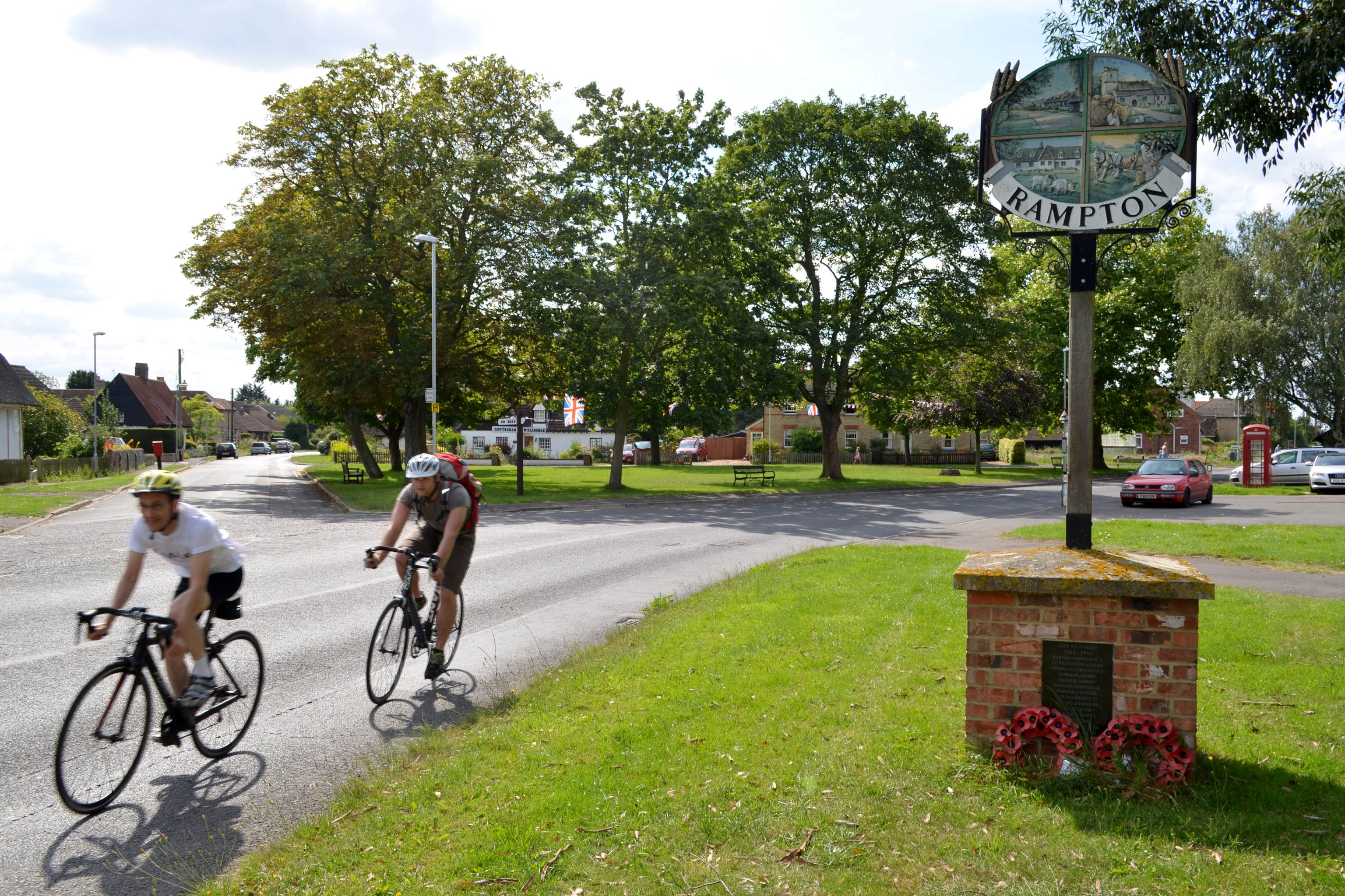 Village sign and green of Rampton, Cambridgeshire, England in July 2014.